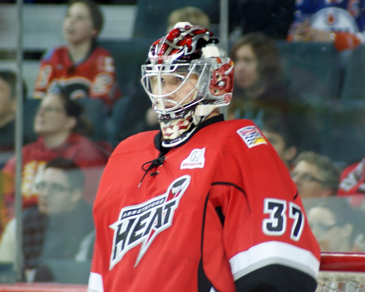 Photo was taken on February 18, 2011 during an American Hockey League (AHL) regular season game.